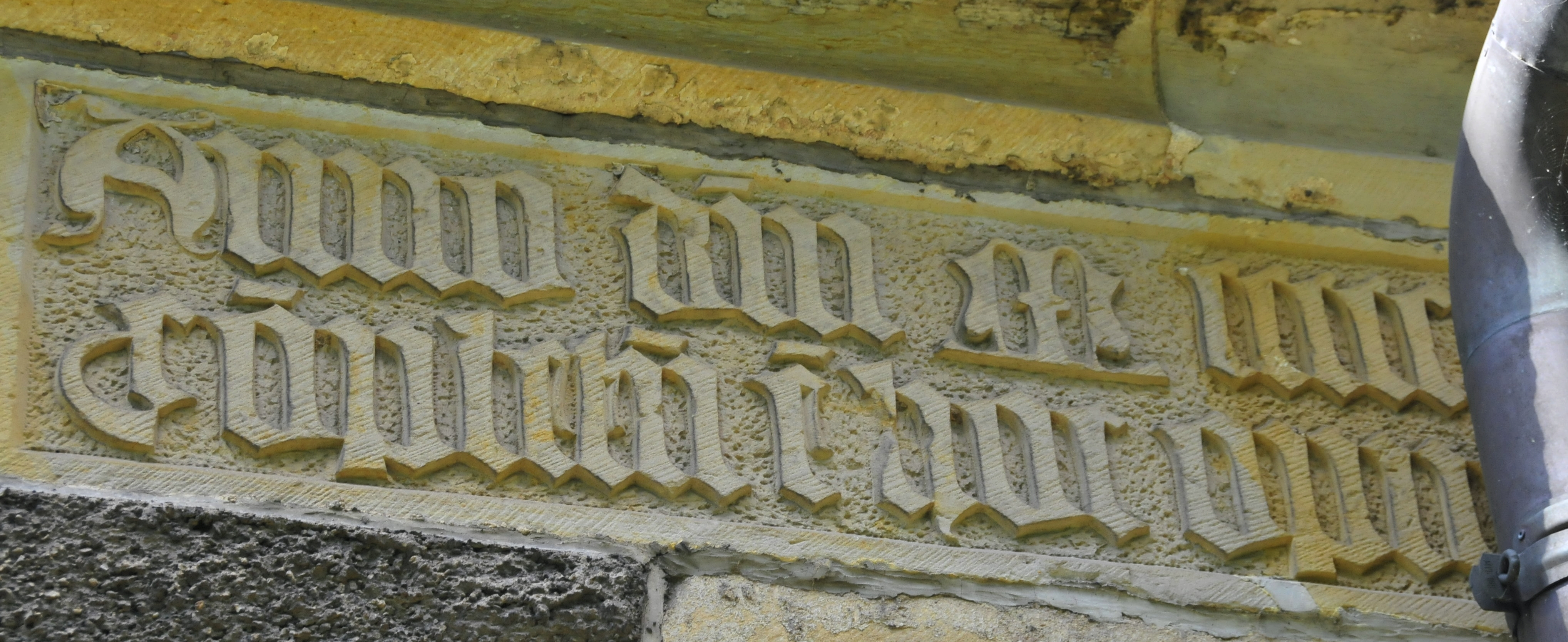 Molschleben, church